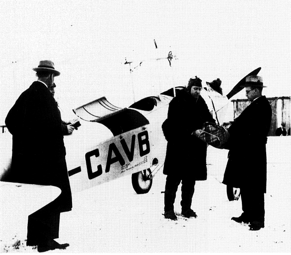 Alberta Deputy Minister of Health, Dr. Malcolm Bow, hands serum wrapped in a blanket to pilot Wop May for his mercy flight from Edmonton to Fort Vermilion.